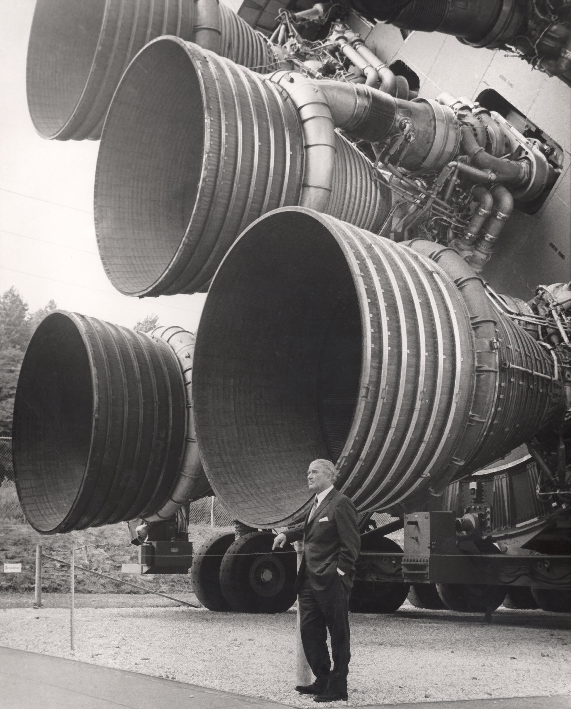 Dr. von Braun standing by five F-1 Engines. A pioneer of America's space program, Dr. von Braun stands by the five F-1 engines of the Saturn V Dynamic Test Vehicle on display at the U.S. Space & Rocket Center in Huntsville, Alabama. Designed and developed by Rocketdyne under the direction of the Marshall Space Flight Center, a cluster of five F-1 engines was mounted on the Saturn V S-IC (first) stage. The engines measured 19-feet tall by 12.5-feet at the nozzle exit and burned 15 tons of liquid oxygen and kerosene each second to produce 7,500,000 pounds of thrust. The S-IC stage is the first stage, or booster, of a 364-foot long rocket that ultimately took astronauts to the Moon.